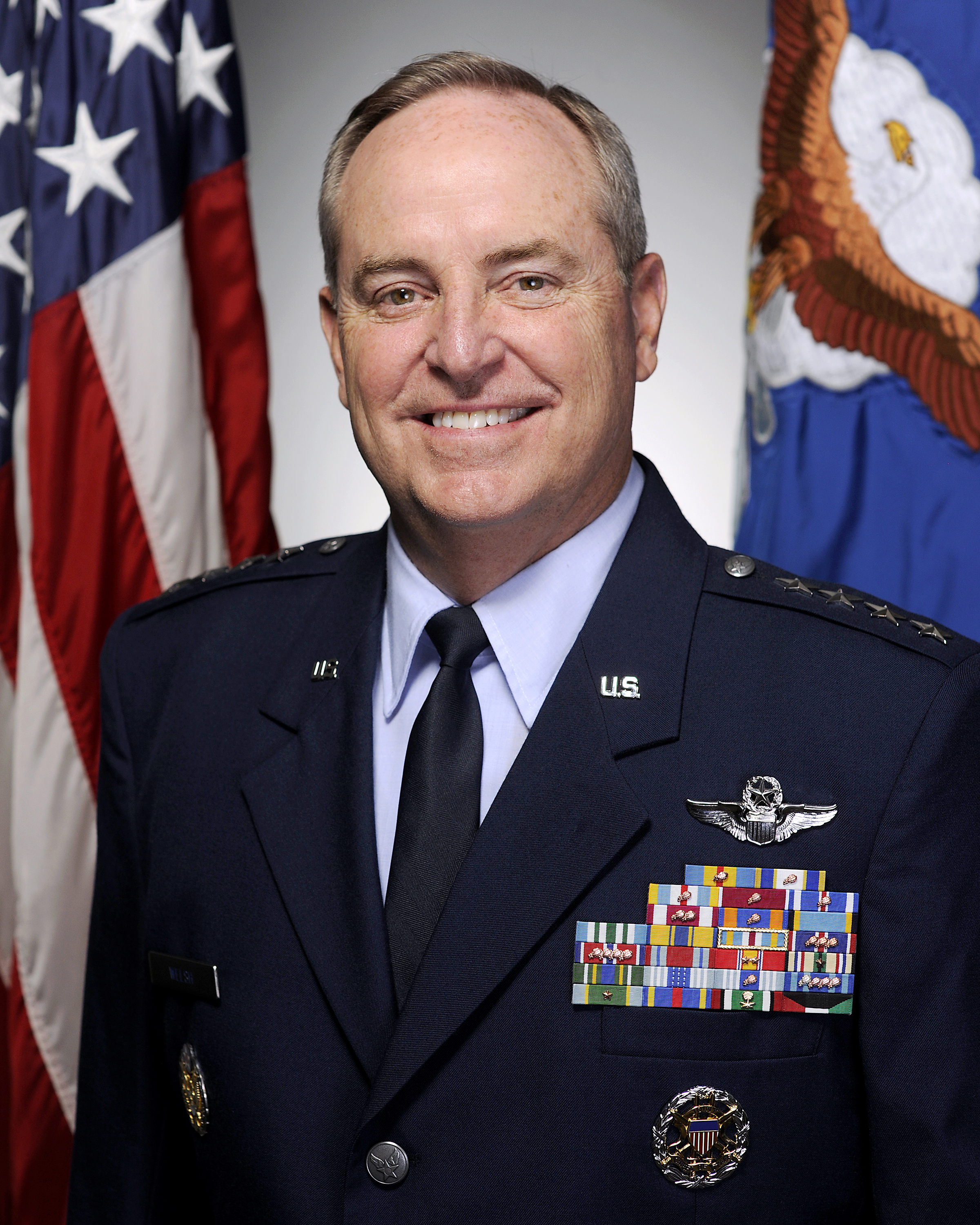 General Mark A. Welsh III, USAF20th Chief of Staff of the United States Air Force